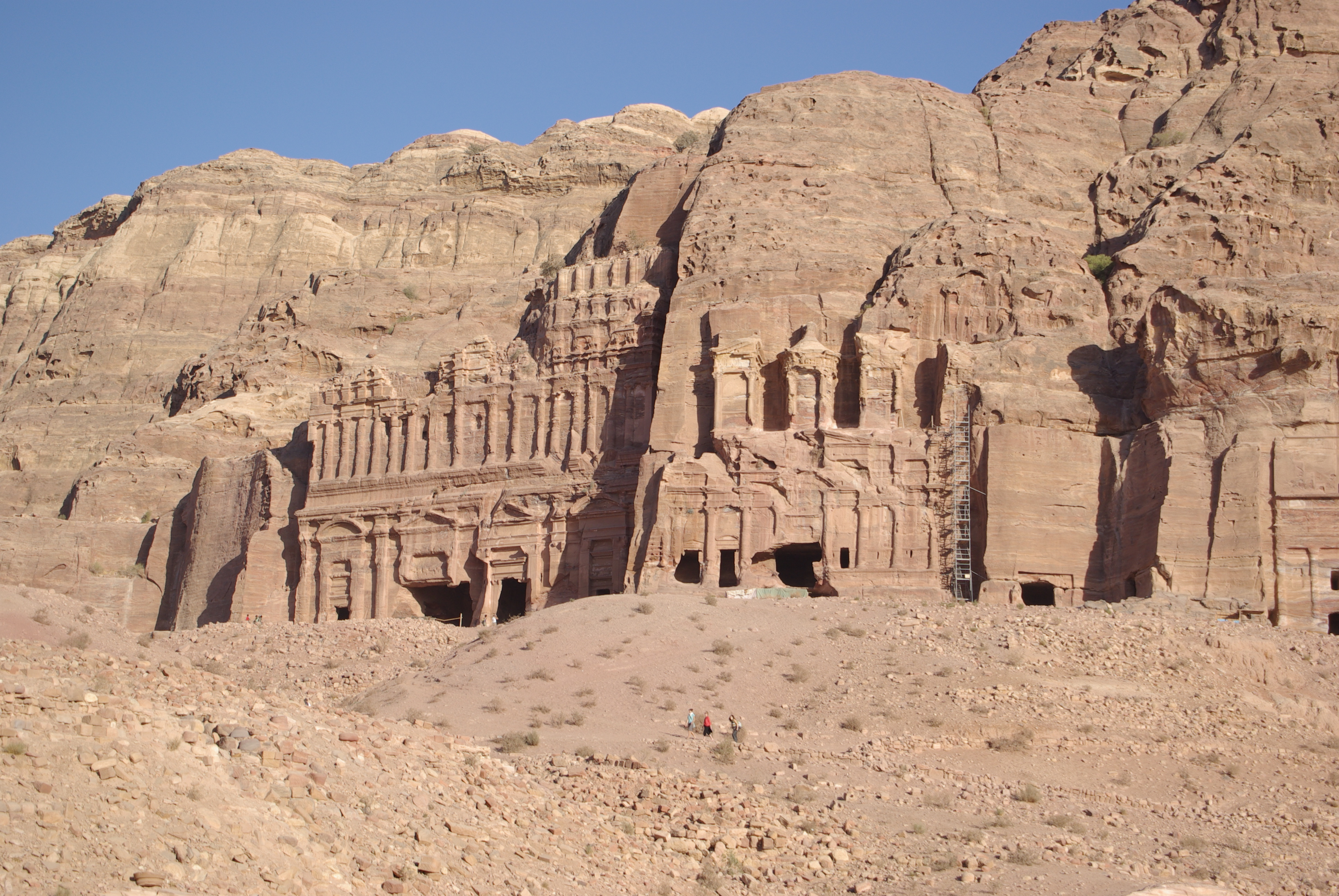 Petra, King's Wall